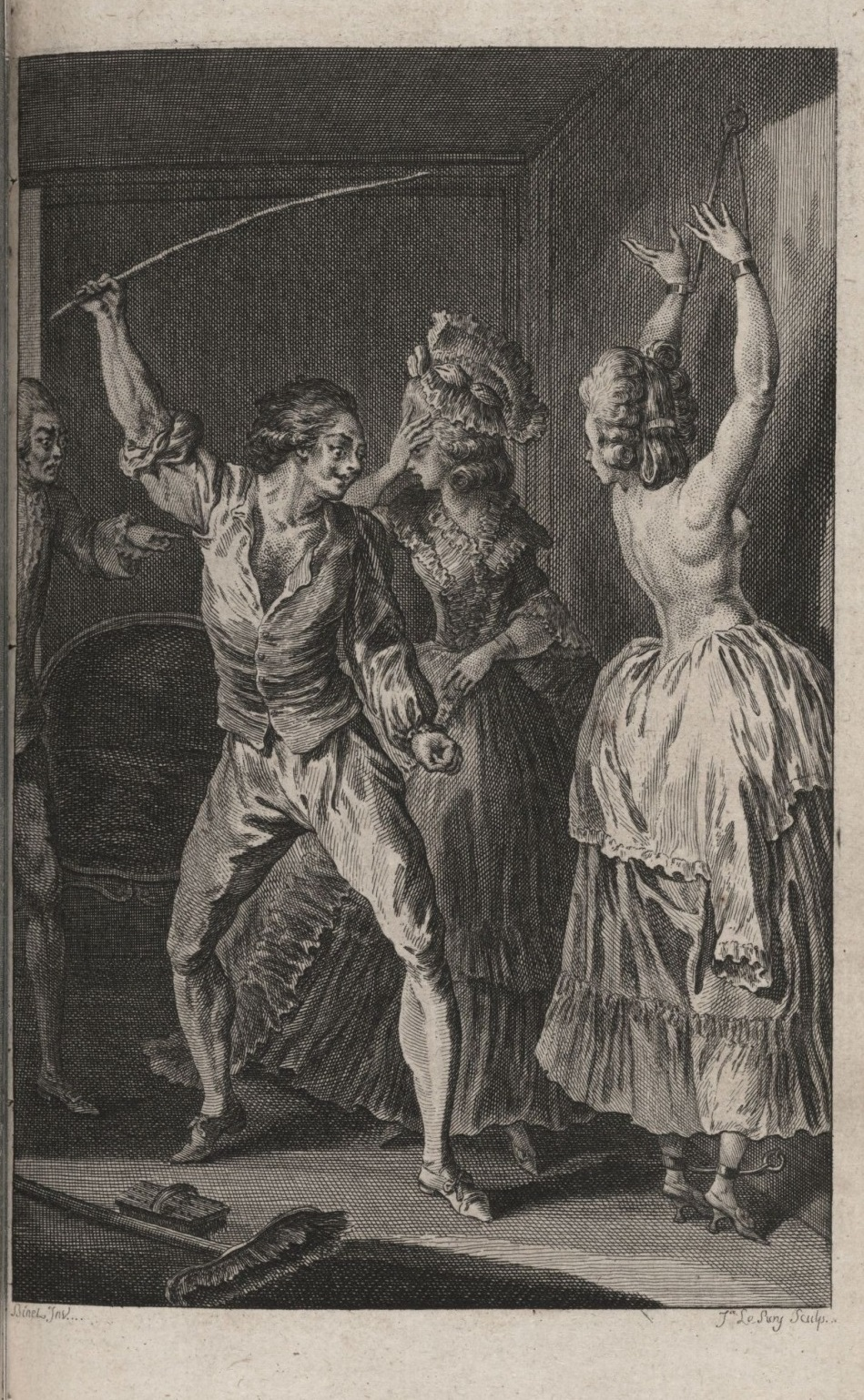 Illustration from Le paysan ét la paysane pervertis; ou Les dangérs de la ville, 1787, by Restif de La Bretonne (1734-1806). *FC7 R3135 788p, Houghton Library, Harvard University